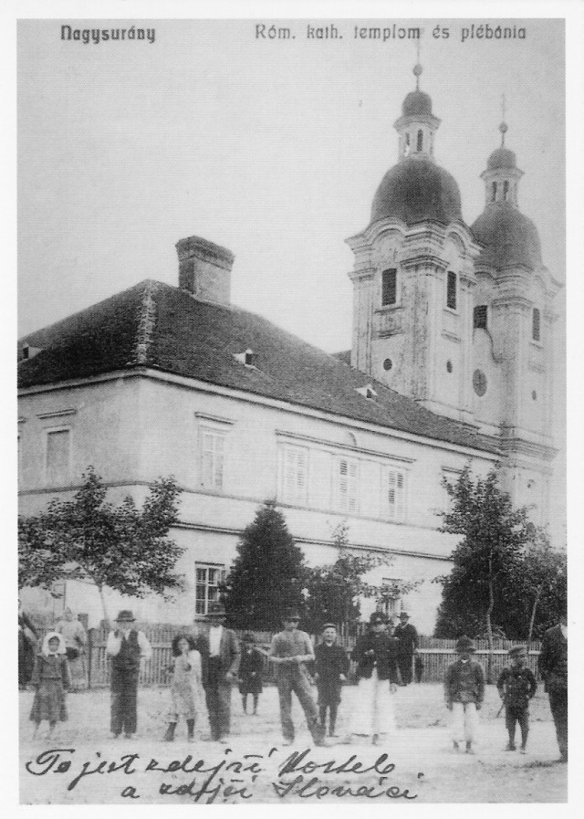 The postcard of catholic church of St. Stephen protomartyr and parish in Nagysurány (now Šurany, Slovakia) from 1914.